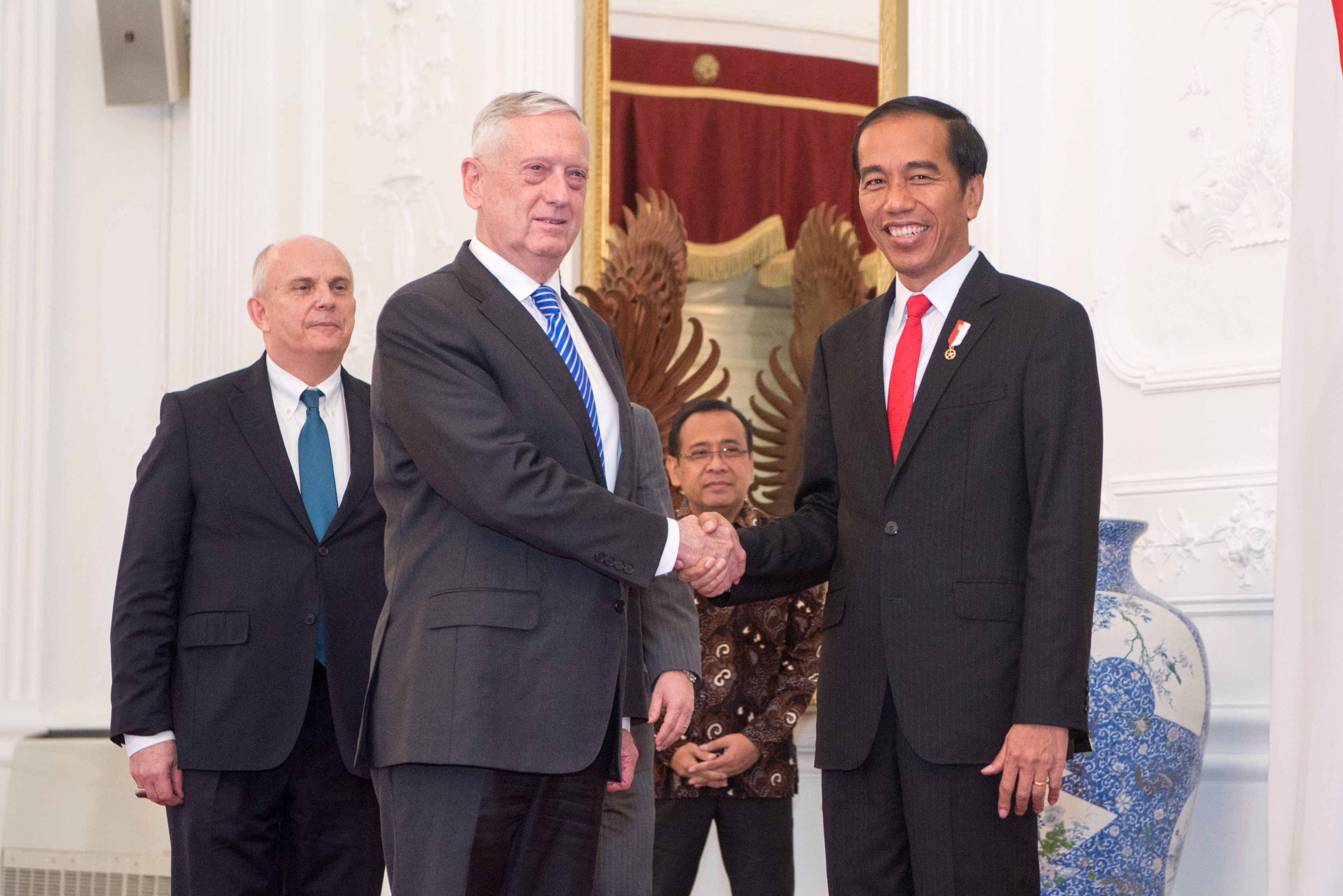 Defense Secretary James N. Mattis meets with the President of Indonesia Joko Widodo during a visit to Jakarta, Indonesia. (180123-D-SV709-0538)